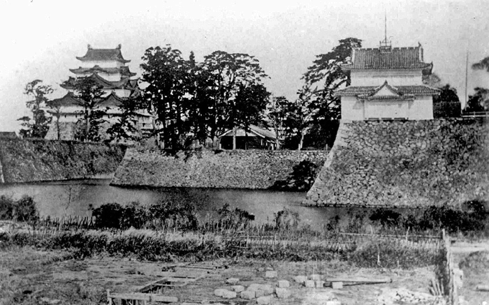 View towards the Nishinomaru enceinte and a lost keep at the corner (Latitude: 35.18426098570008, Longitude: 136.89650963835606), with the main keep in the background.